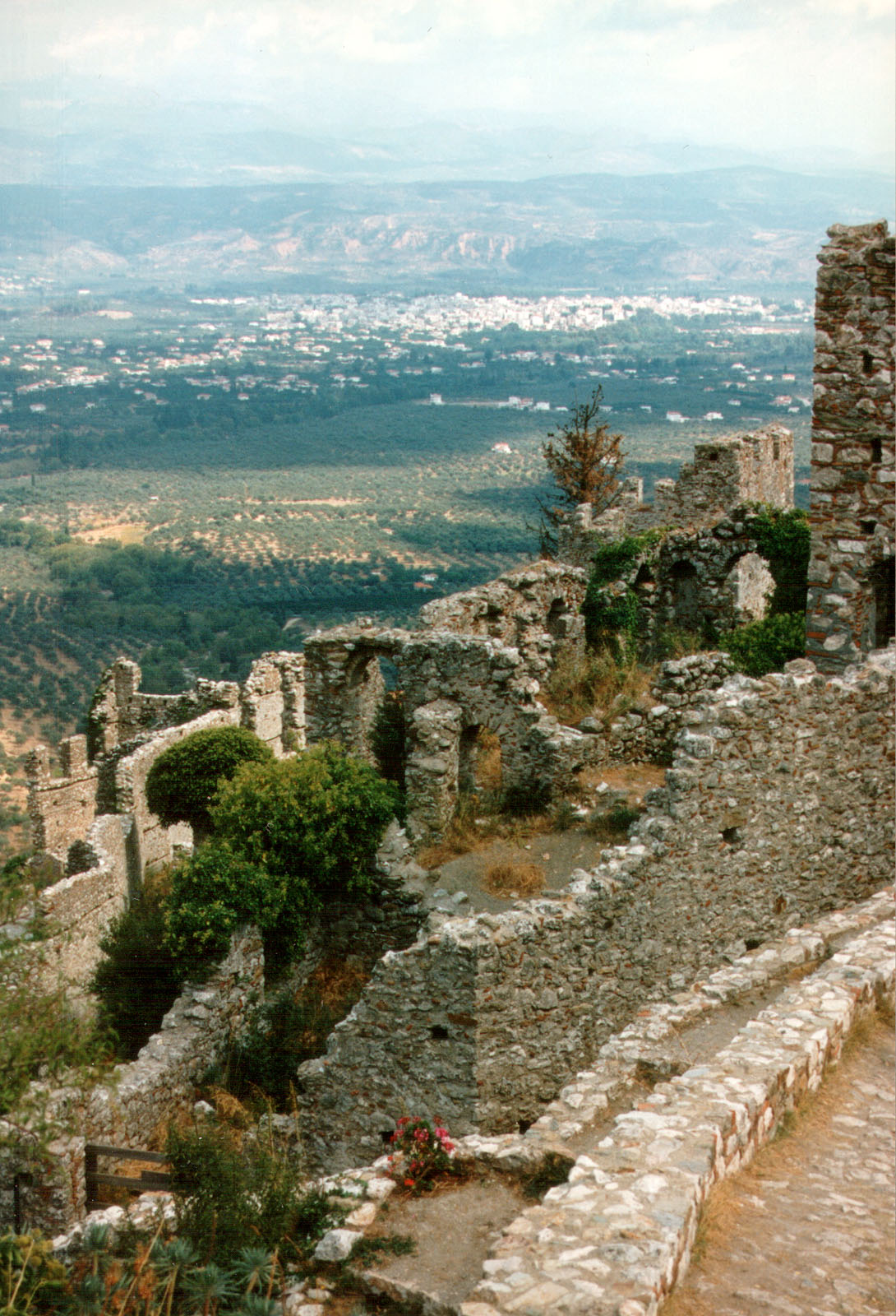 View from Mystras. The town in the background is Sparta